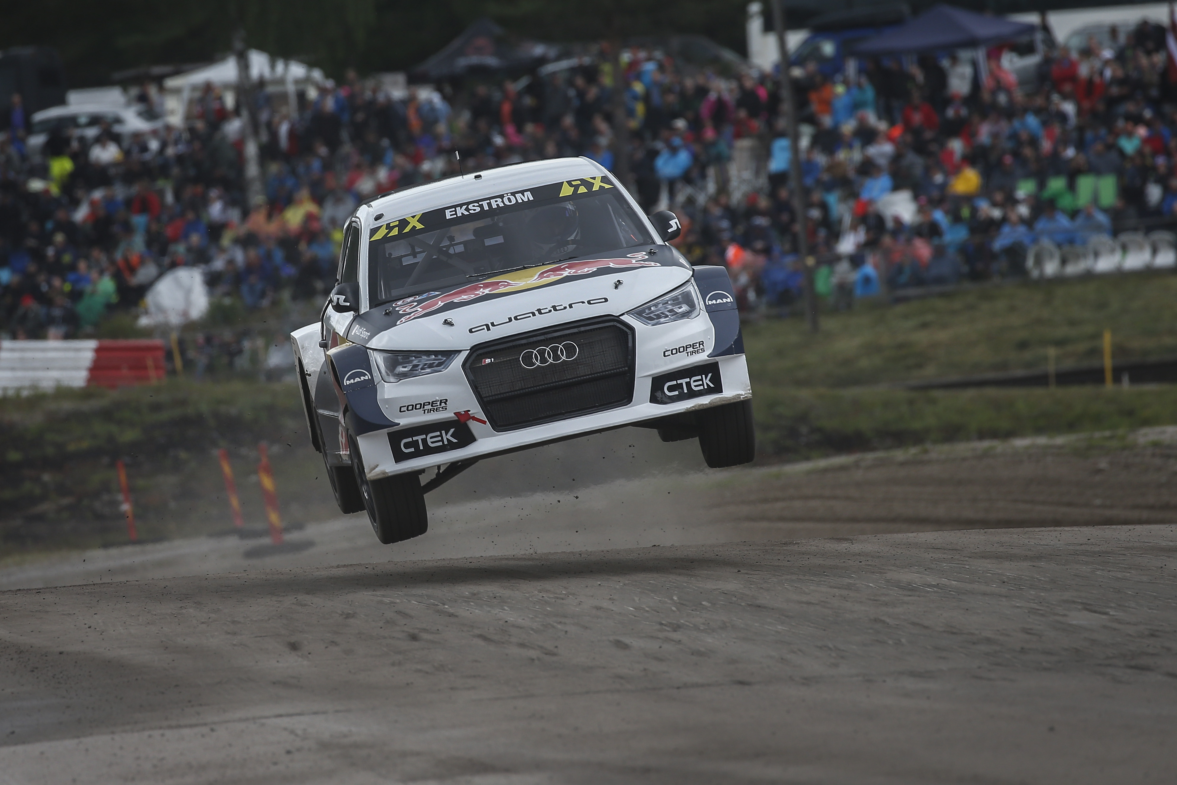 2016 FIA World Rallycross Championship / Round 06, Holjes Sweden 1/7-3/7-2016 // Worldwide Copyright: Tony Welam/EKS/McKlein